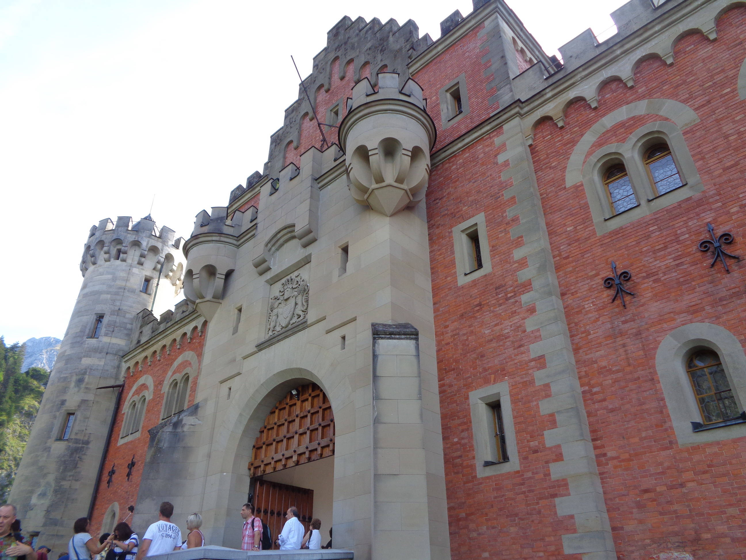 Neuschwanstein Castle, Bavaria (Germany) - entrance facade